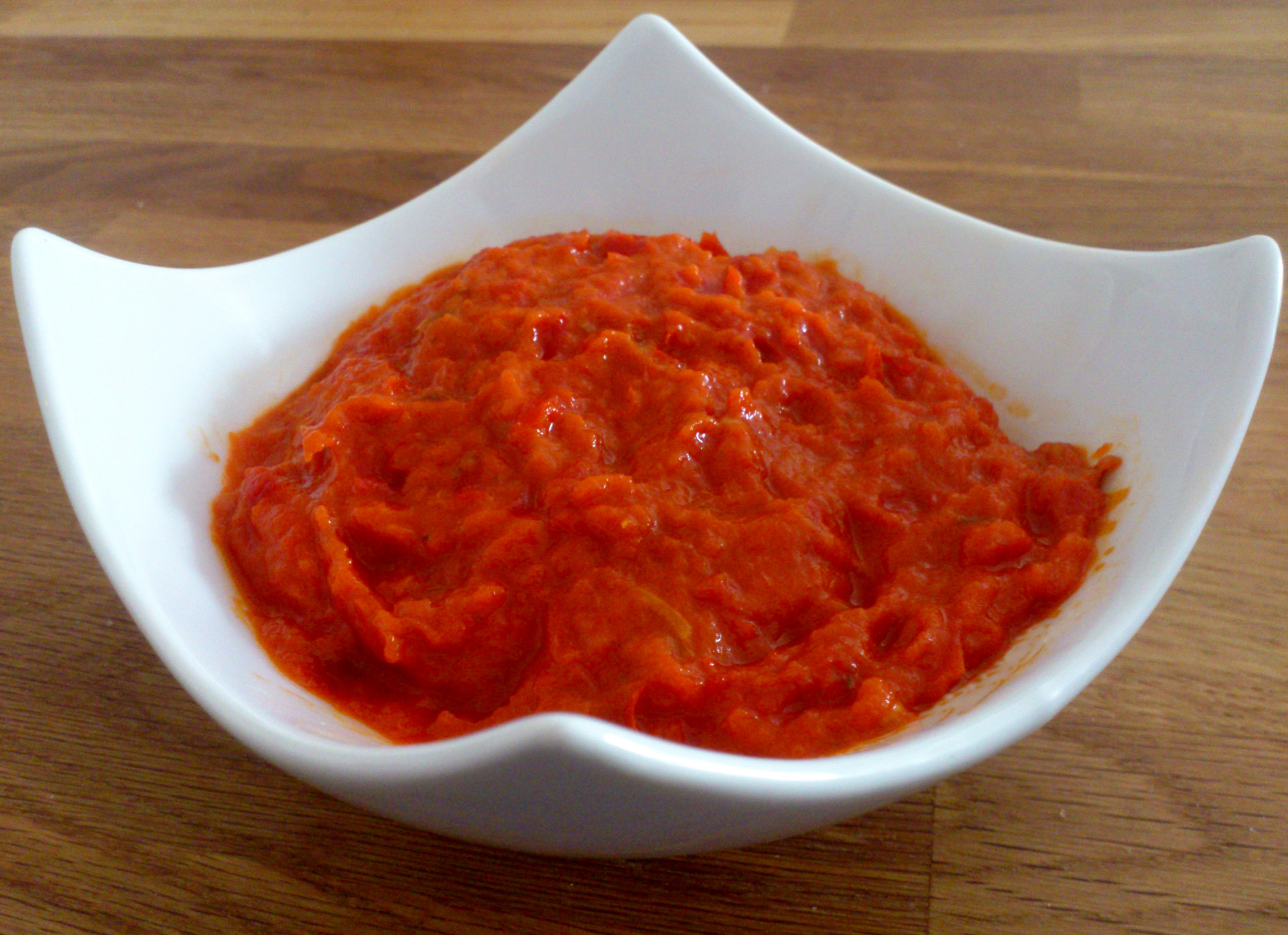 Pindjur